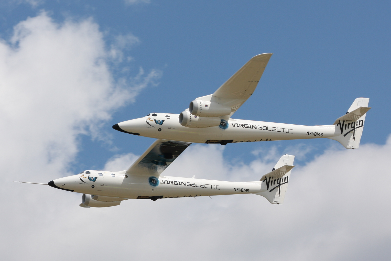 The Scaled Composites Model 348 WhiteKnightTwo (WK2) is a jet-powered carrier aircraft which will be used to launch the SpaceShipTwo spacecraft. It is being developed by Scaled Composites as the first stage of Tier 1b, a two-stage to suborbital-space manned launch system. WK2 is based on the successful mothership to SpaceShipOne, White Knight, Model 348 WhiteKnightTwo (WK2) is a jet-powered carrier aircraft which will be used to launch the SpaceShipTwo spacecraft. It is being developed by Scaled Composites as the first stage of Tier 1b, a two-stage to suborbital-space manned launch system. WK2 is based on the successful mothership to SpaceShipOne, White Knight, (AirVenture 2009)